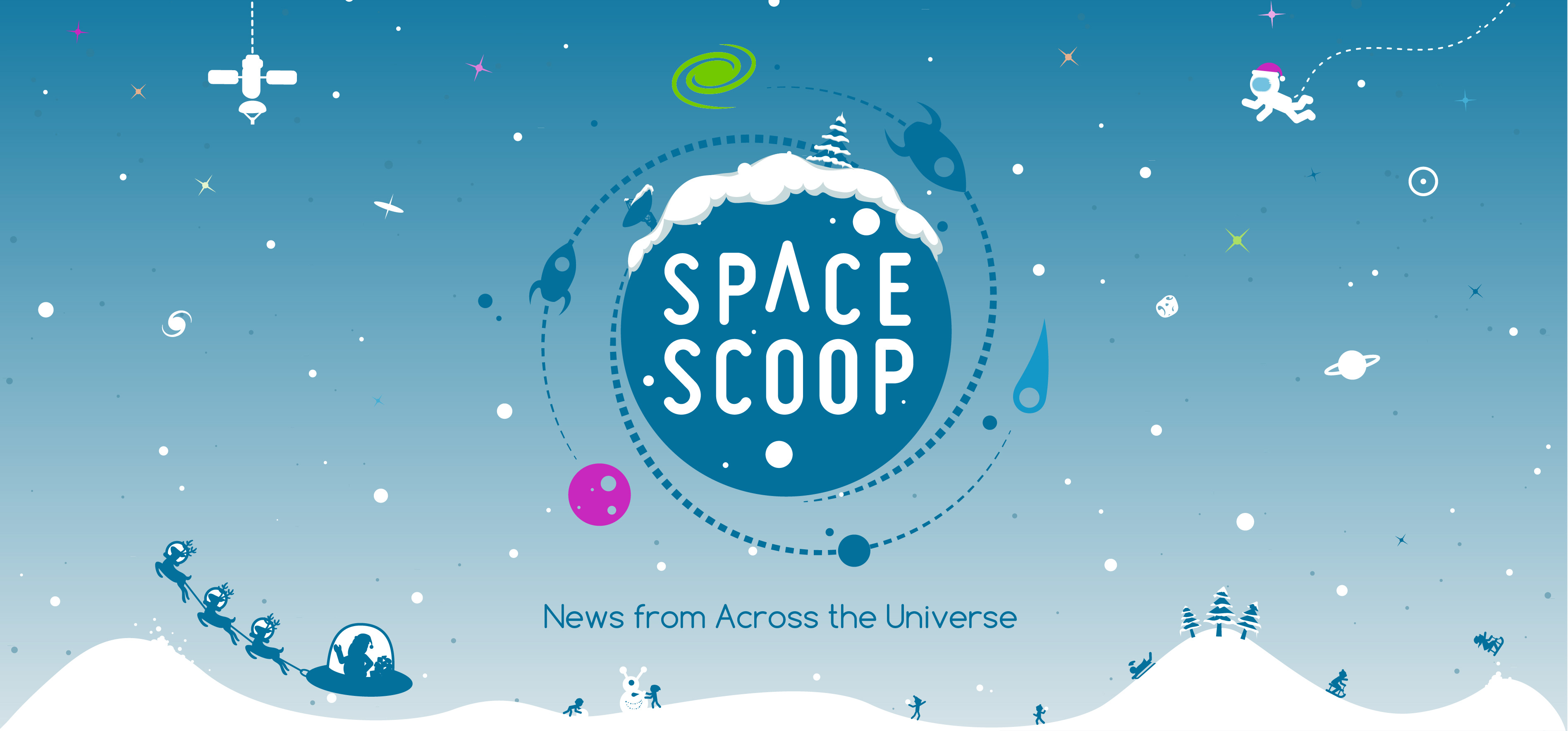 This image shows a banner of the new Space Scoop webpage, launched in December 2015, in Christmas style.